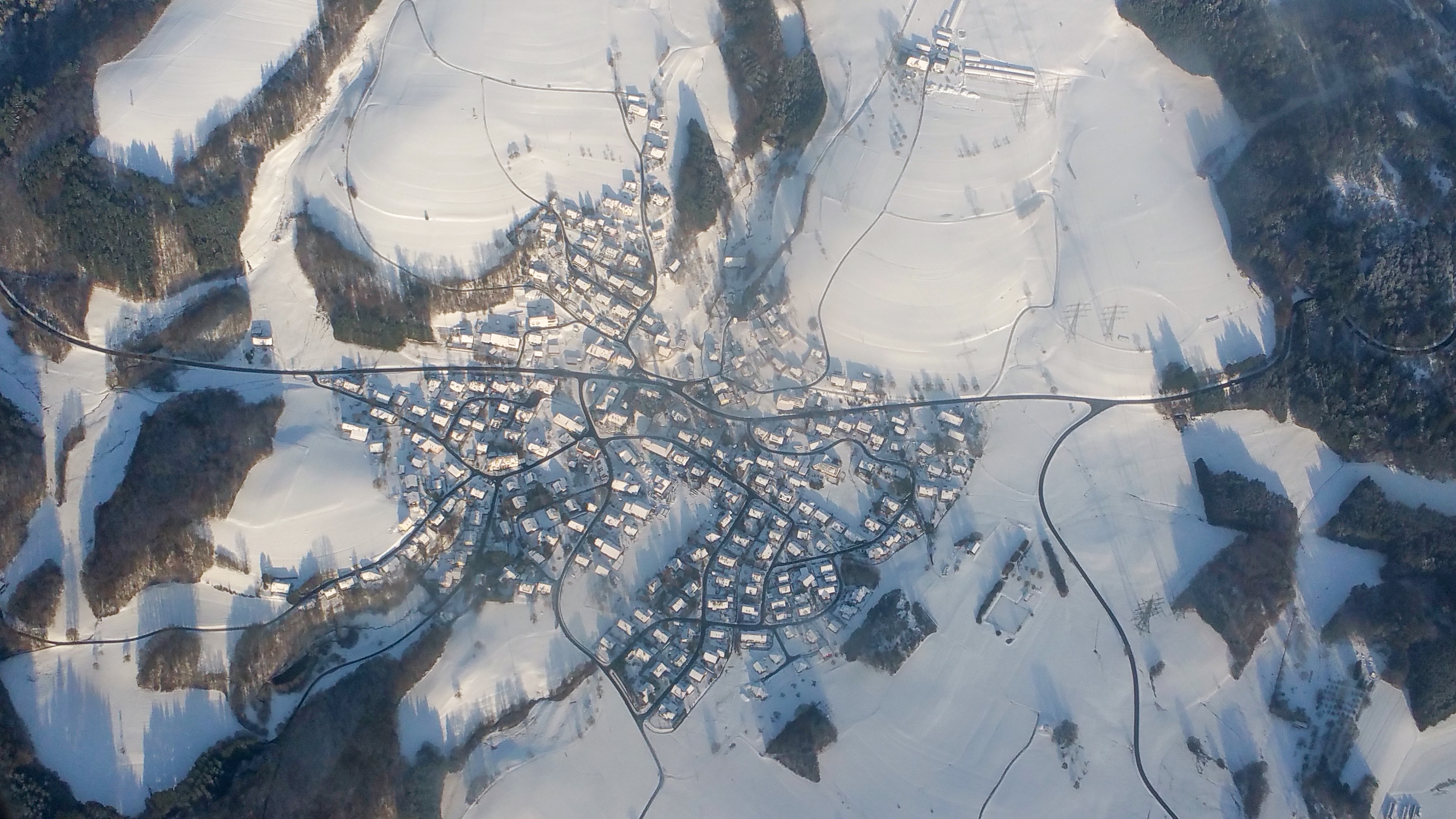 Germany, approach into ZRH across the Black Forest